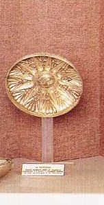 metal exhibits mainly from the necropolis of Kozani dating from the Iron Age to the 3rd century BC, image from the Archaeological Museum, Kozani, West Macedonia, Greece